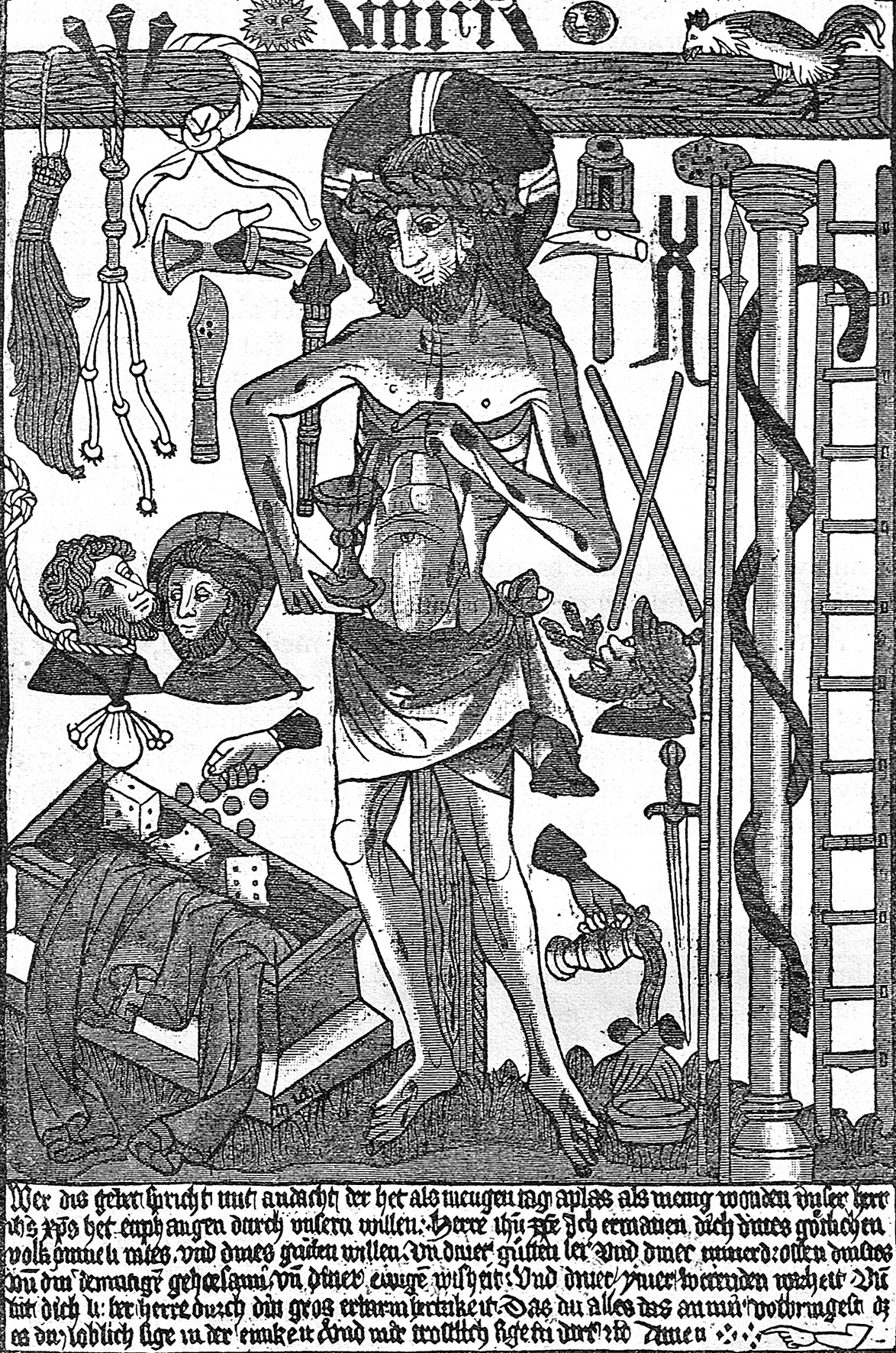 Letter of Indulgence from about 1430